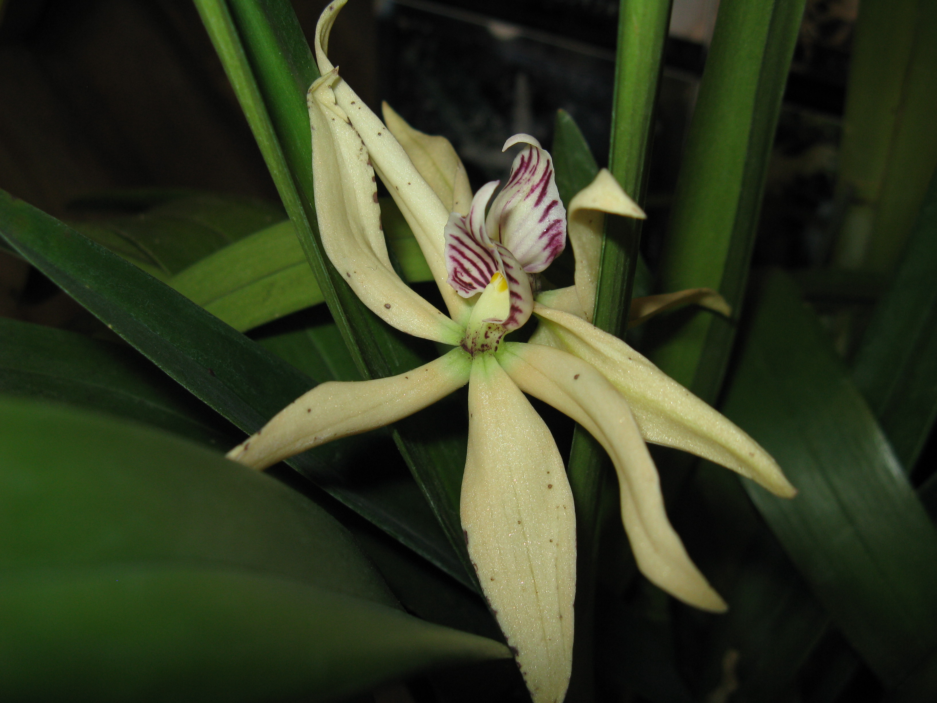 Scientific name Epidendrum pentotis Place:Osaka Prefectural Flower Garden,Osaka,Japan